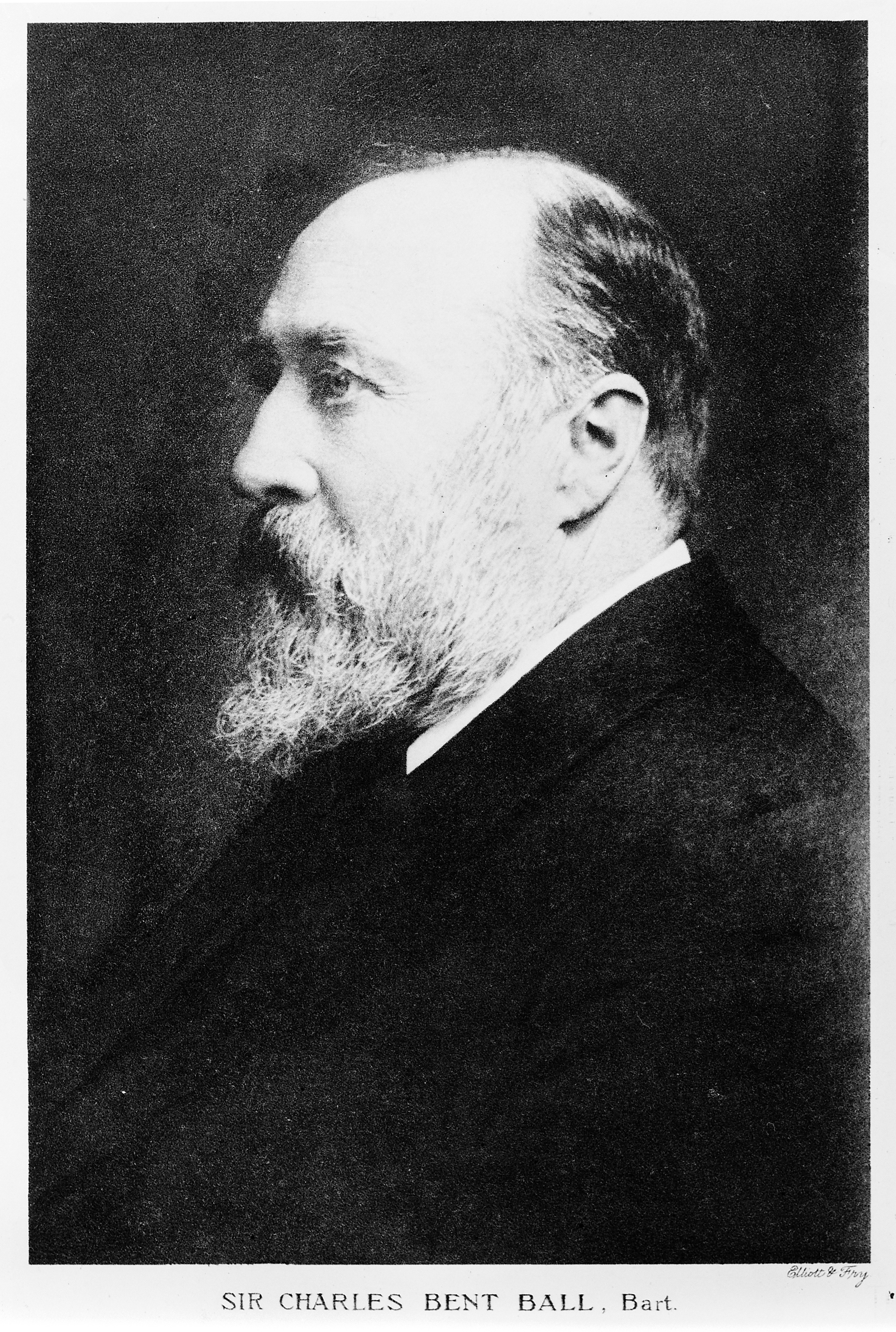 Obituary portrait of Sir Charles Bent Ball. Head and shoulders in left profile. General Collections Keywords: Ball, Charles; surgeon